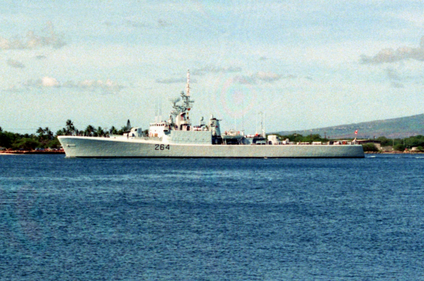 The Royal Canadian Navy Mackenzie-class destroyer escort HMCS Qu'Appelle (DDE 264) at Pearl Harbor, Hawaii, (USA).